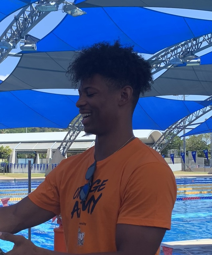 Cropped photo of Scott Machado